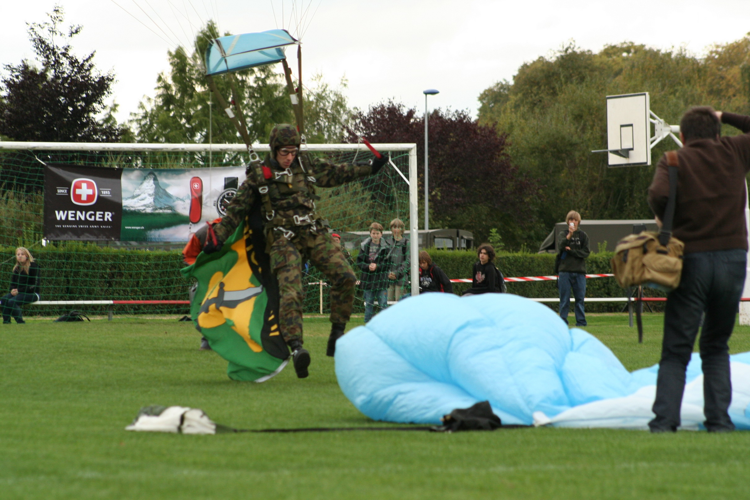 SRC Paratrooper